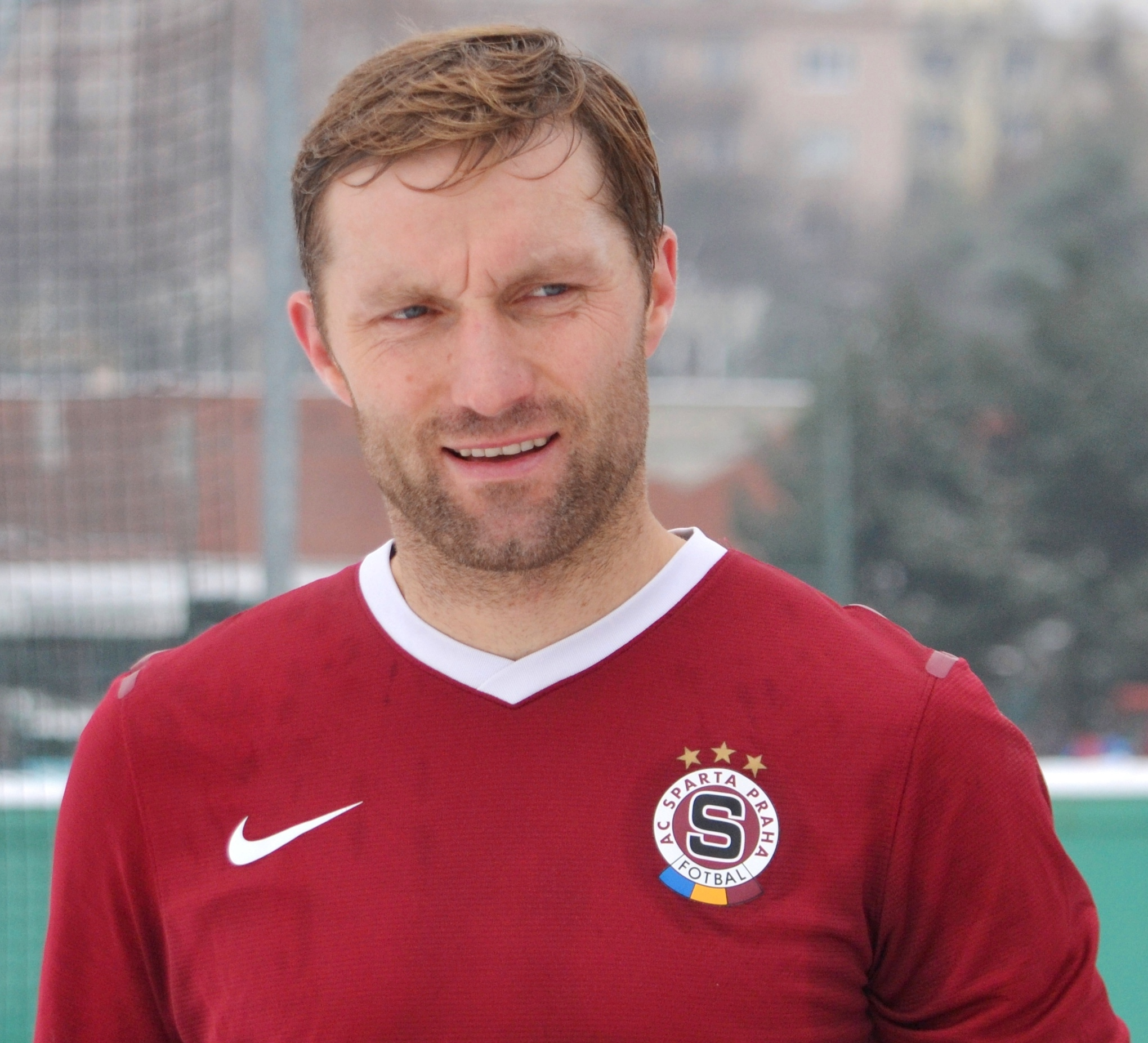 Milan Fukal, Czech footballer